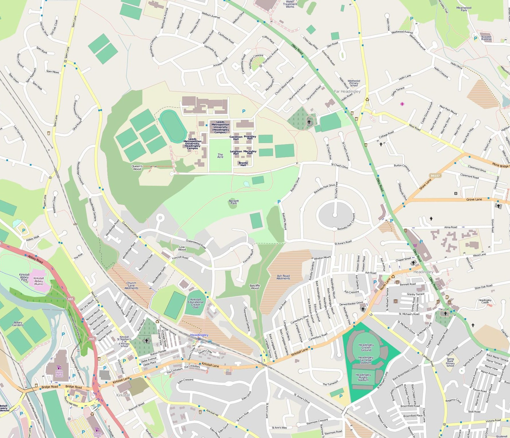 A street map of Headingley and Far Headingley in Leeds, West Yorkshire. Taken from Open Street Map on the 10th of December 2012.